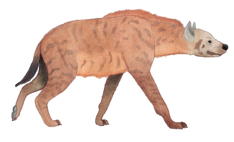 Reconstruction of Adcrocuta